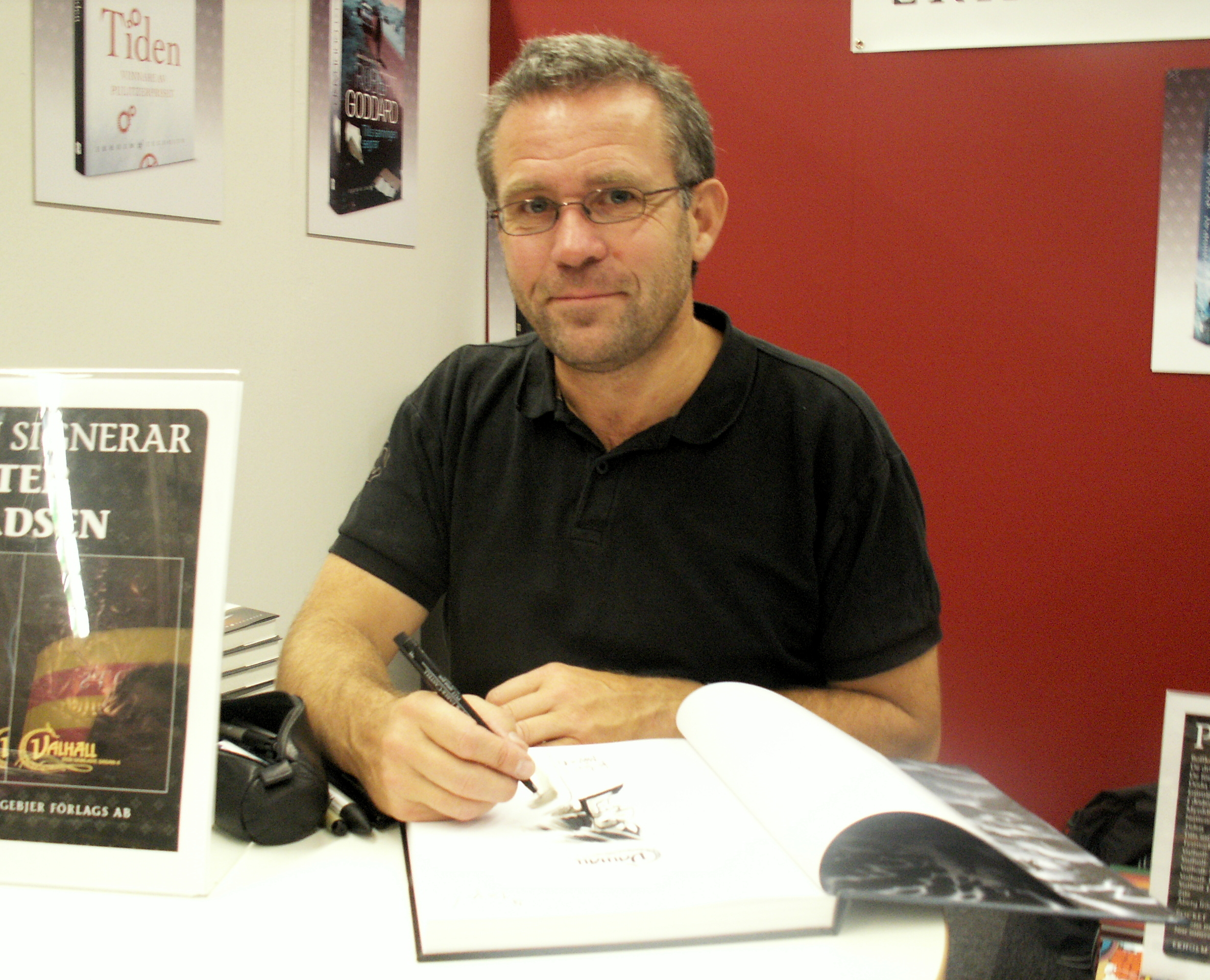 Peter Madsen signs a book of collected Valhall comic albums at the Göteborg Book Fair in 2012.